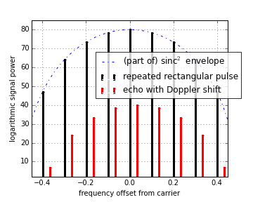 Part of repeated pulse spectrum (sinc shaped envelope and components spaced pulse repetition frequency apart) together with doppler shifted echo in red from approaching target.